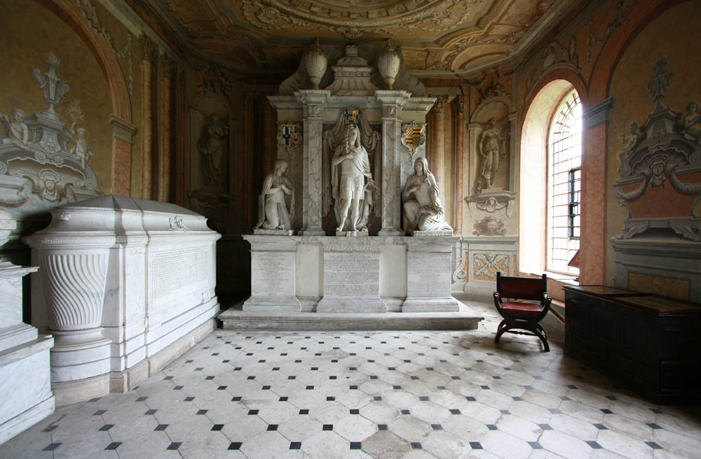 St Lawrence, Whitchurch Lane, Little Stanmore - Chandos mausoleum